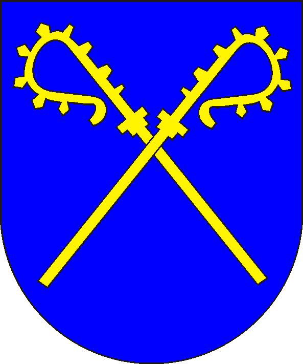 coat of arms of the bishopric of Schwerin